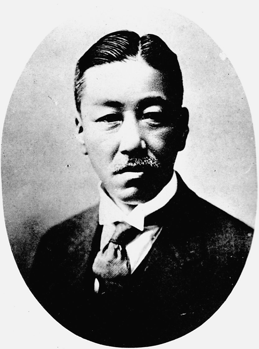 Ota Mitsuhiro